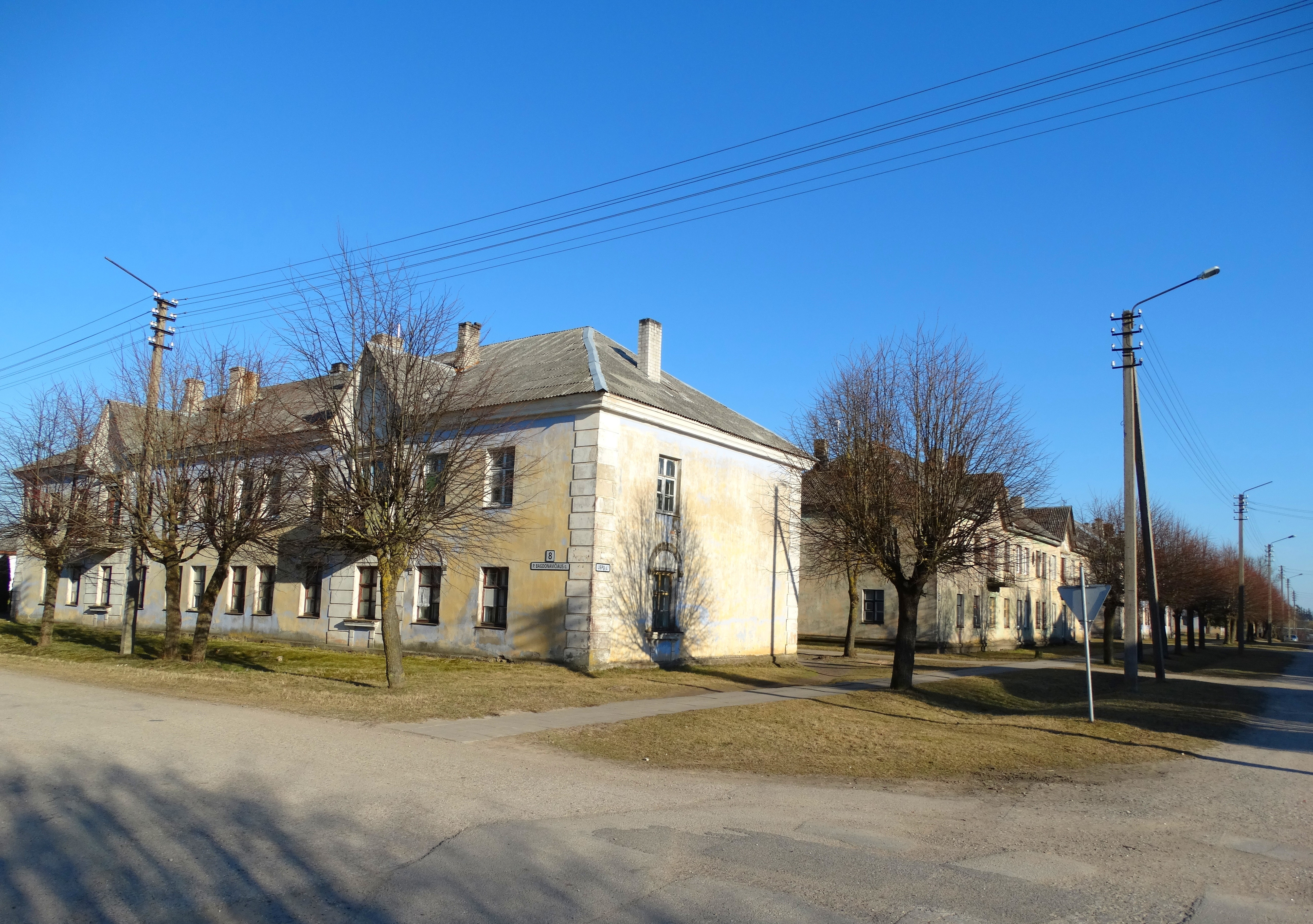 Tyruliai, Radviliškis District, Lithuania